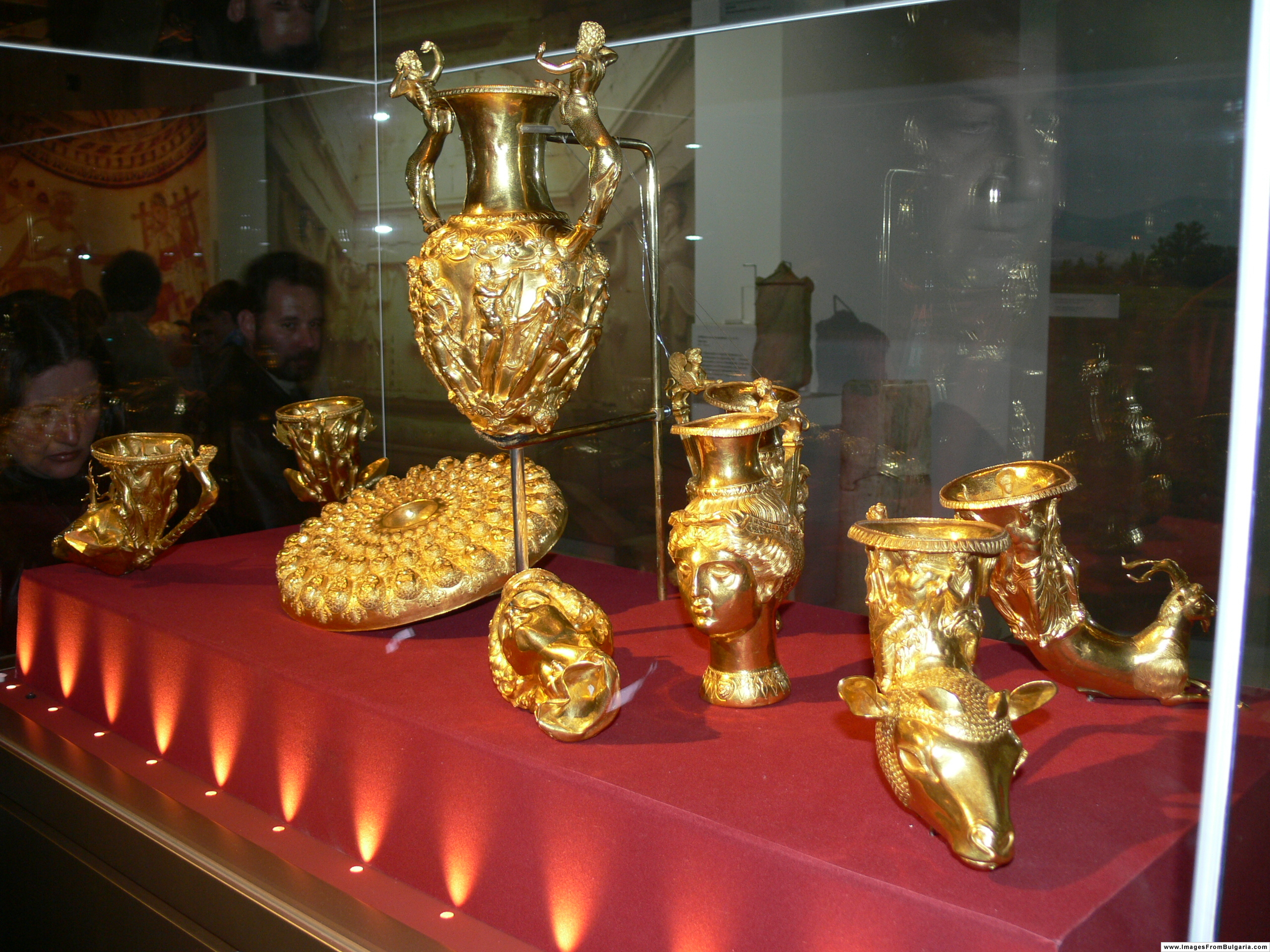 Panagyurishte gold treasure, National Historical Museum, Sofia, Bulgaria.